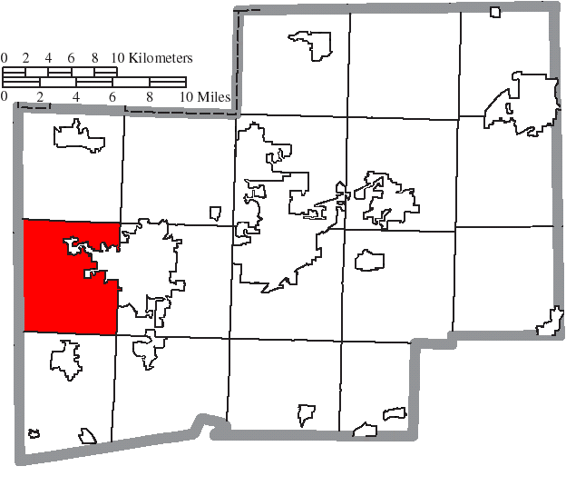 Map of the municipal and township boundaries of Stark County, Ohio, United States, as of the 2000 census, with the location of Tuscarawas Township highlighted. Township borders are shown only in unincorporated areas in order to differentiate incorporated and unincorporated areas more clearly.